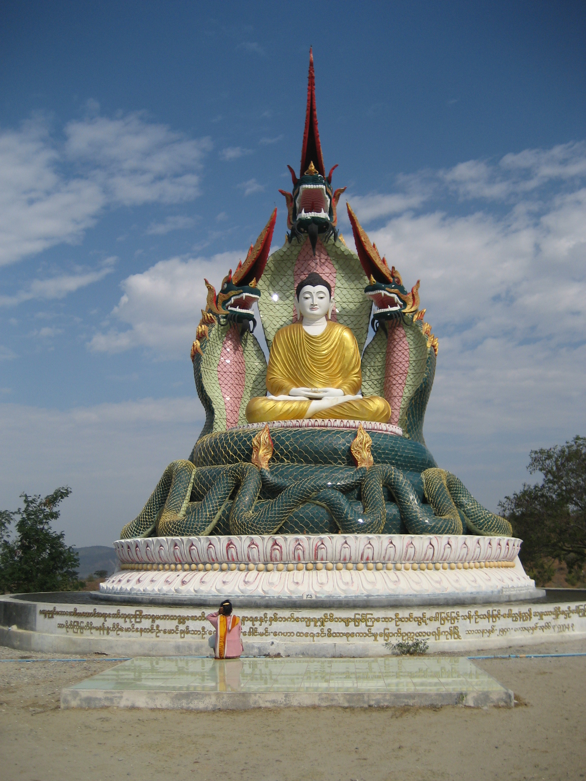 Nagayon Paya (Buddha sheltered by the Nāga's hood) at Monywa, Myanmar